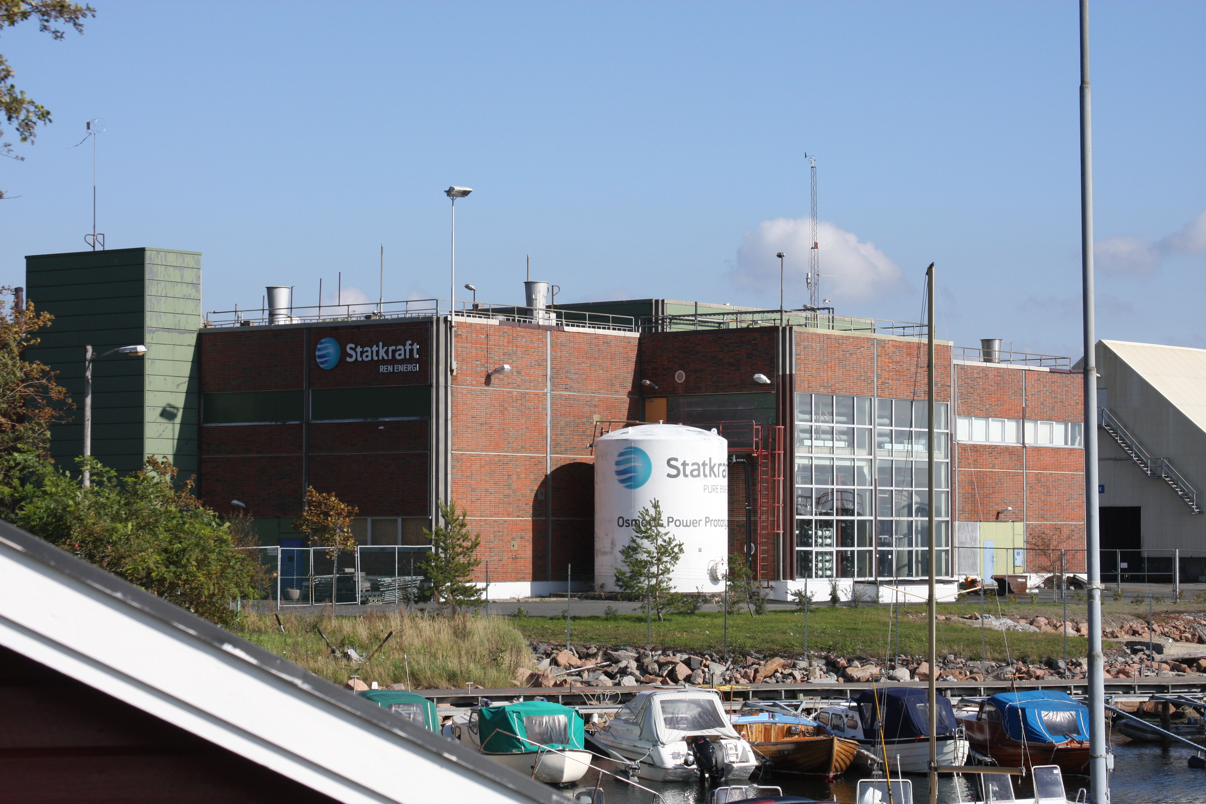 Statkraft Osmotic Power Prototype at Tofte (Hurum), Norway. The first saltwater, osmosis power plant in the world, opened November 24, 2009.